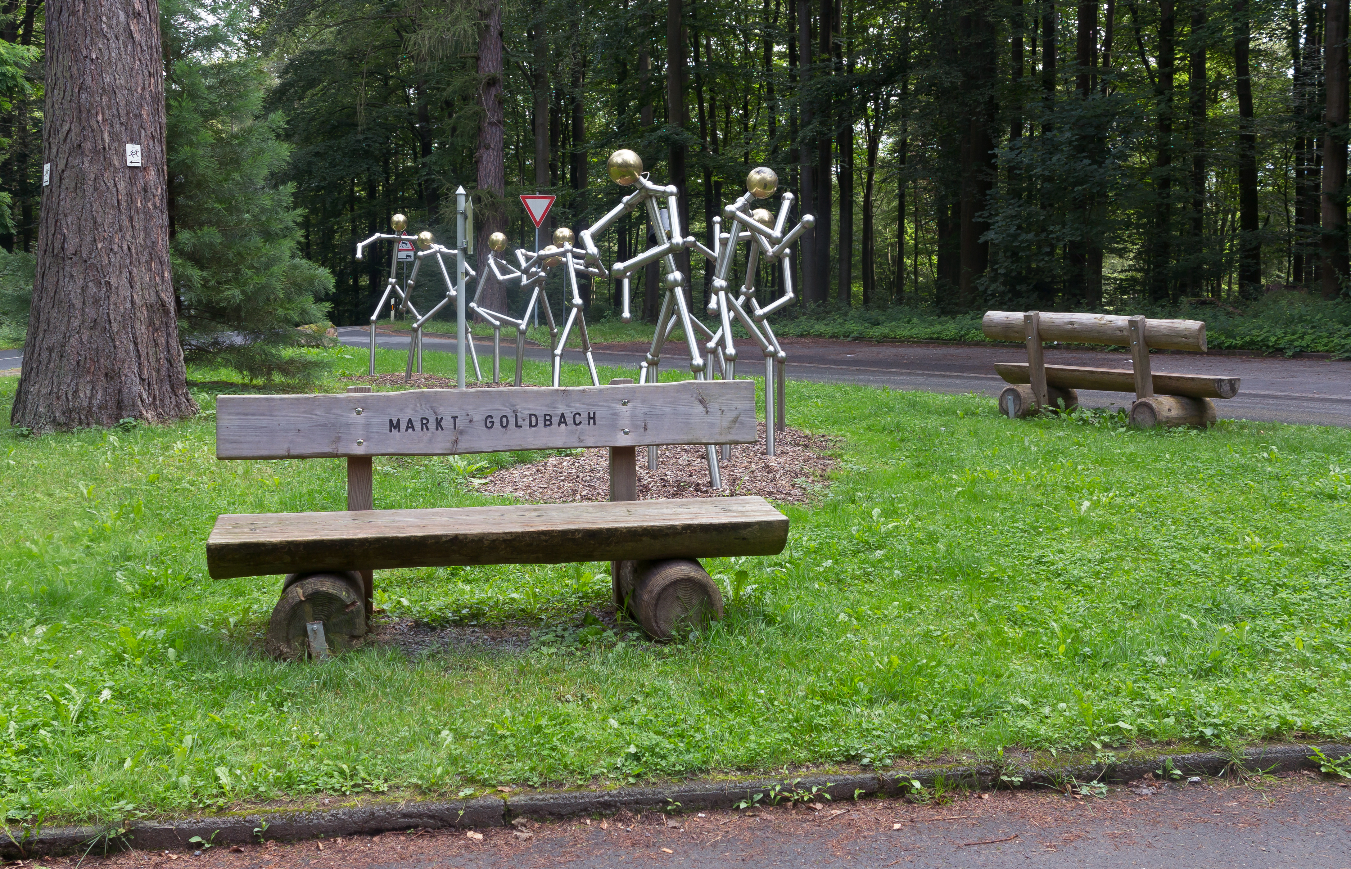 between Unterafferbach and Goldbach, sculpture